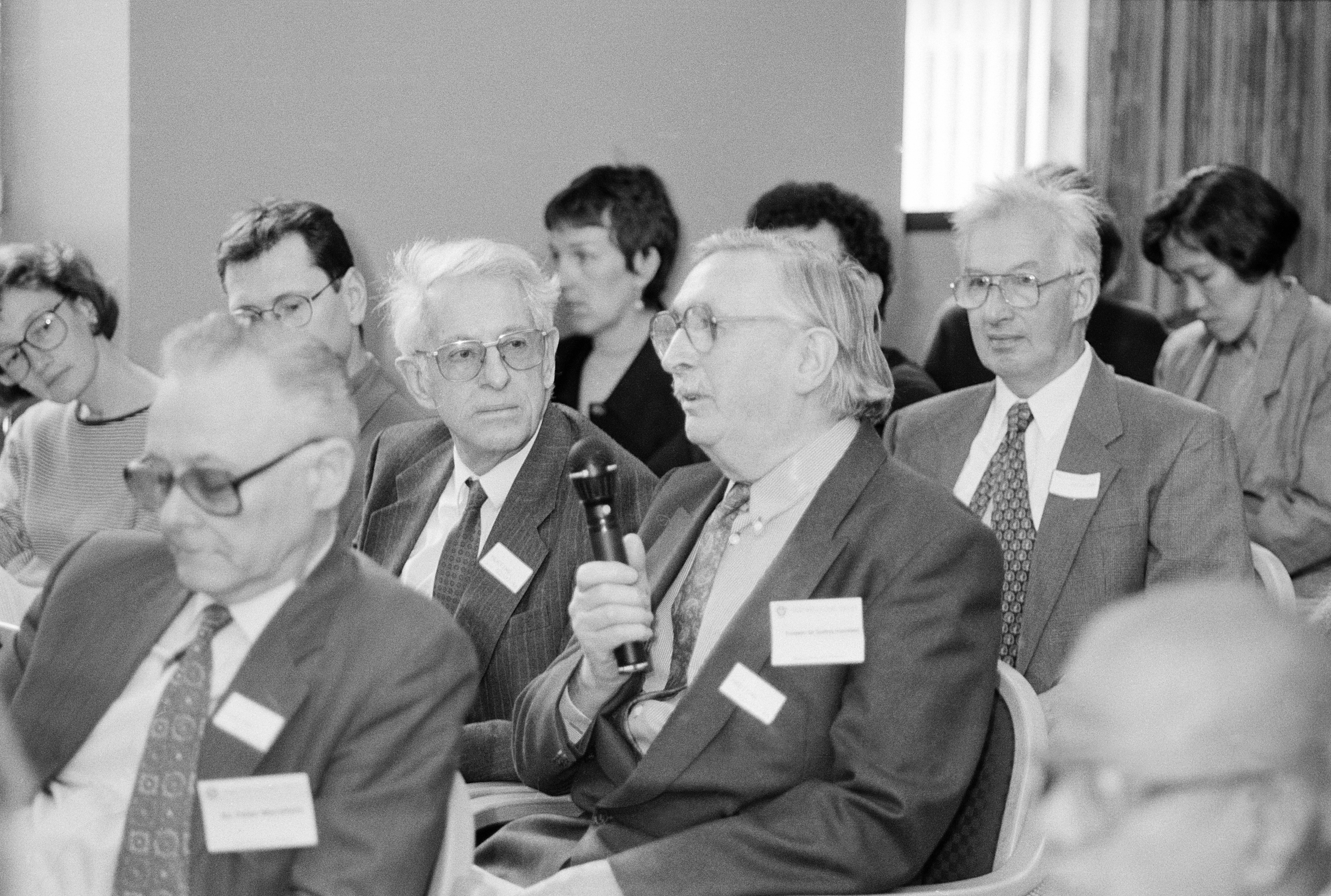 Taken at the Witness Seminar “Making the Body More Transparent: The Impact of Nuclear Magnetic Resonance and Magnetic Resonance Imaging” held by the History of Twentieth Century Medicine Group.